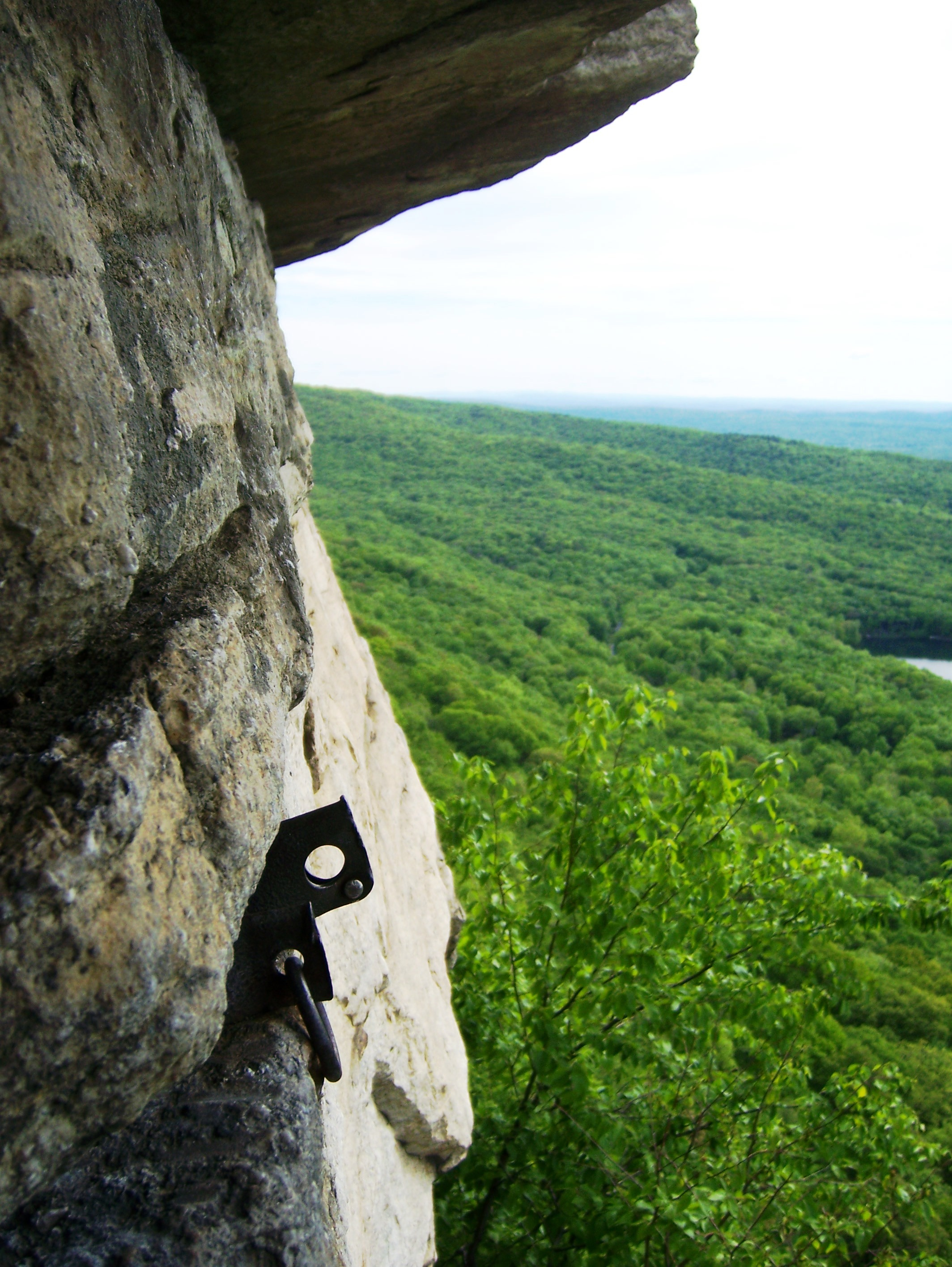 Old angle pitons on Shockley's Ceiling route at the Trapps cliff of Shawangunk Ridge located at Mohonk Preserve near New Paltz, New York.